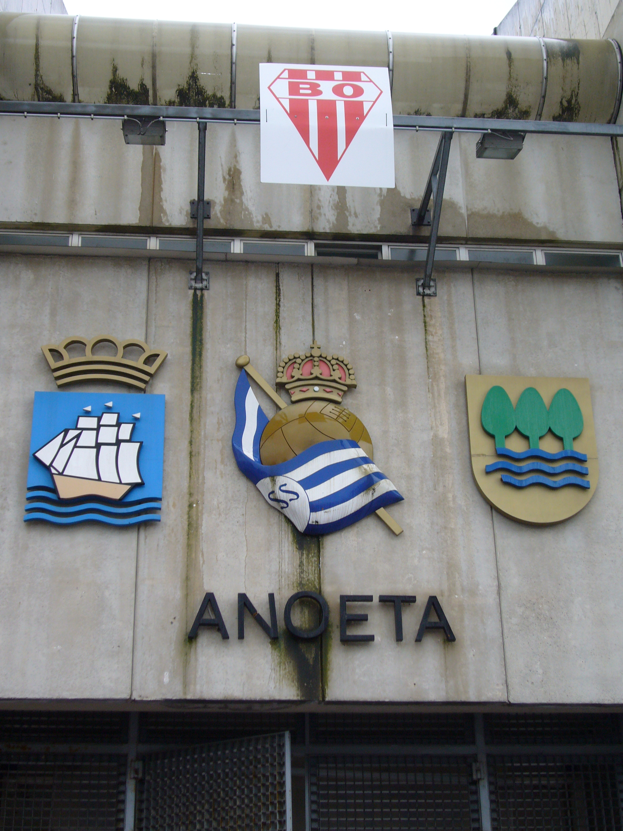 Sign on the front of Anoeta Stadium.